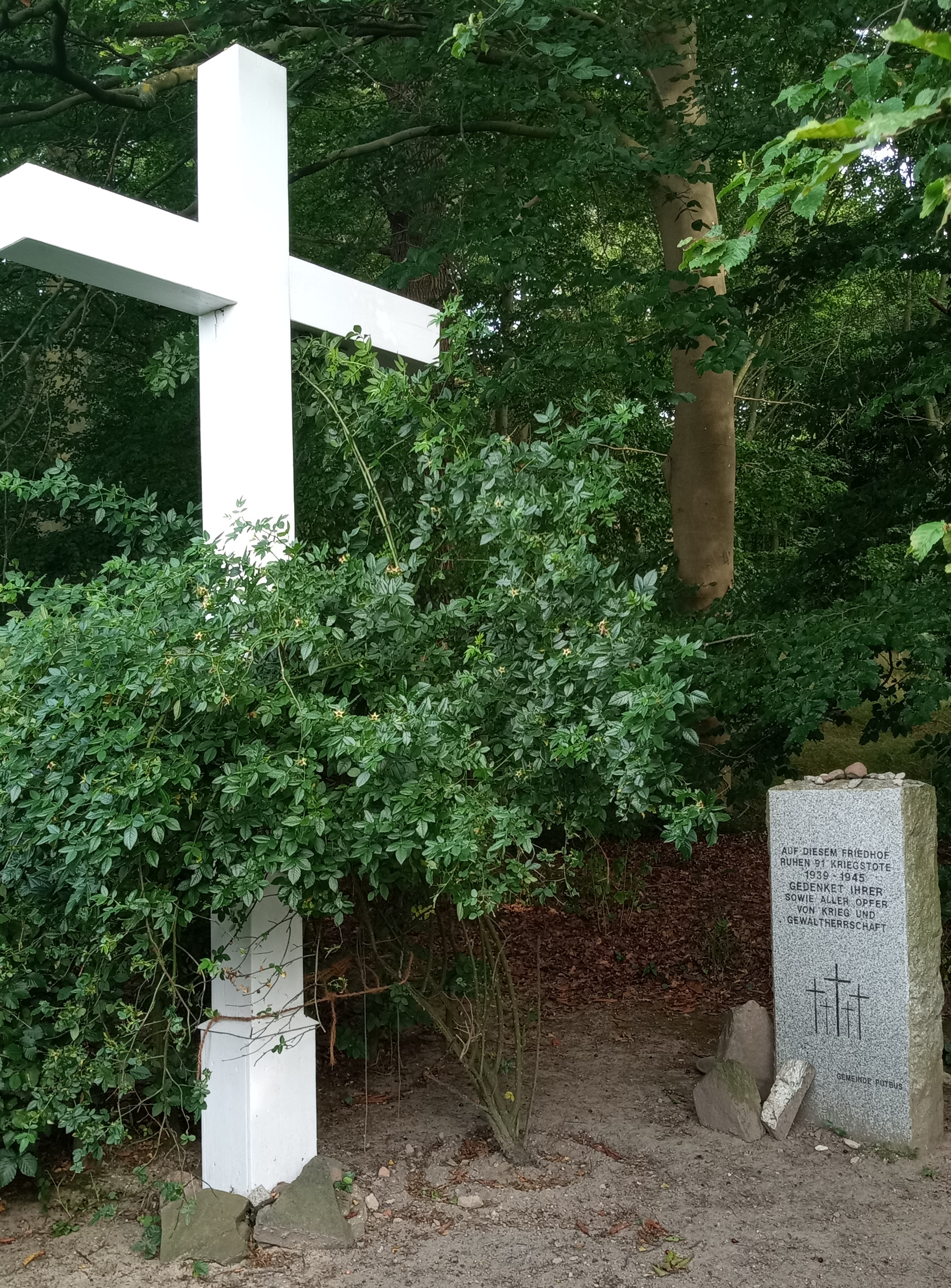 White cross and memorial stone at the entrance of the small cemetery at the Goor nature reserve near Lauterbach (Rügen).